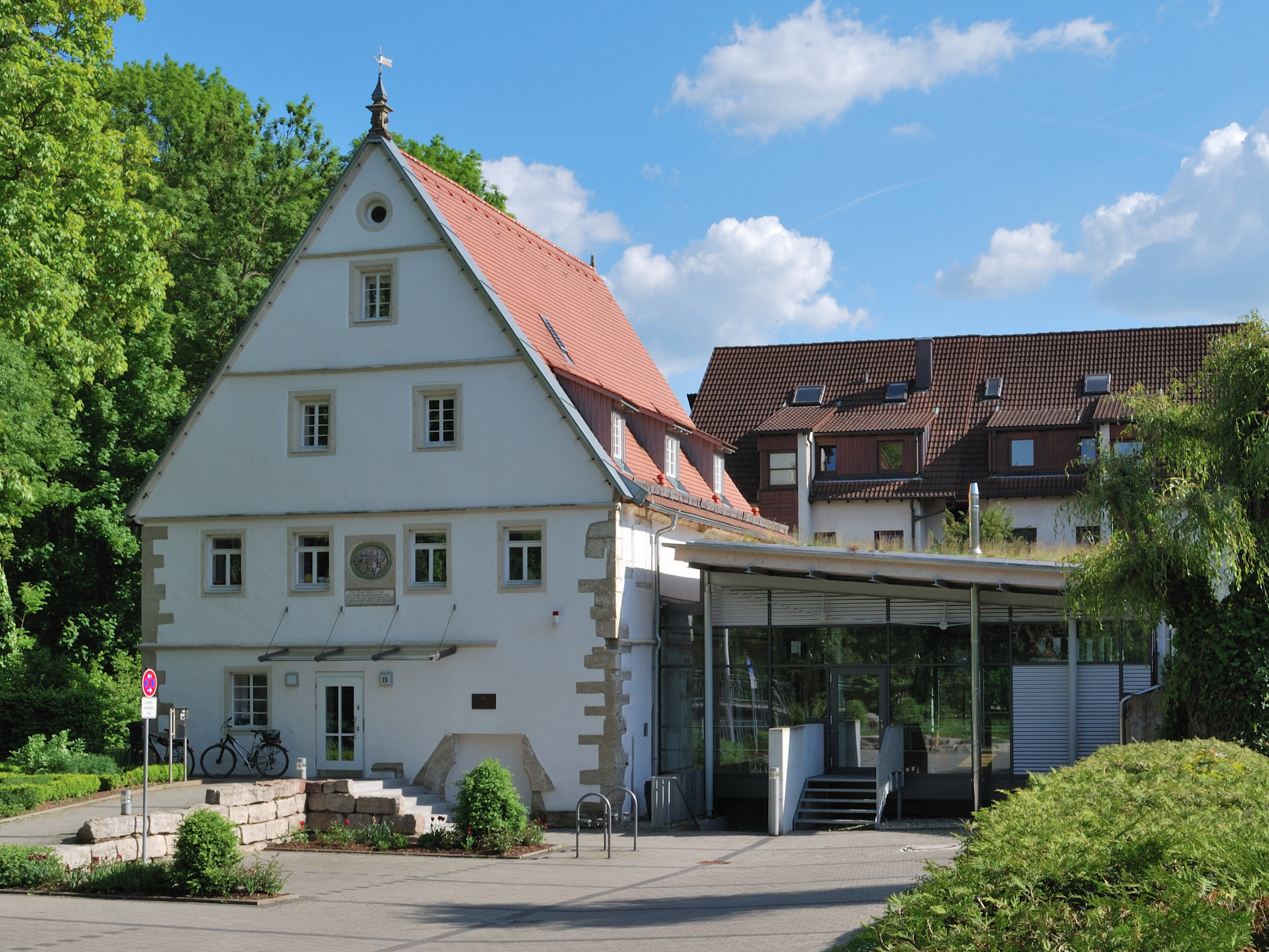 The Bruckmühle, a former flour mill on the river Glems in Schwieberdingen in Southern Germany.